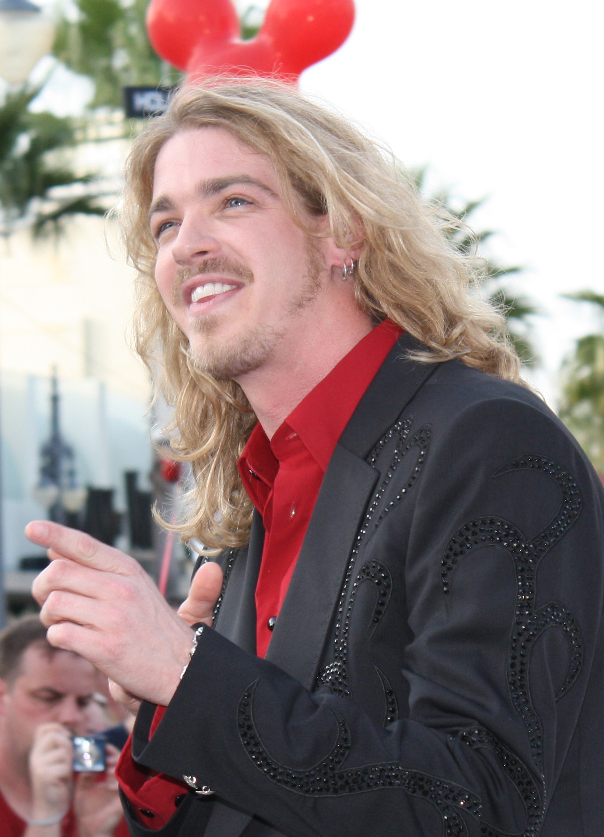 Bucky Covington, contestant on American Idol.